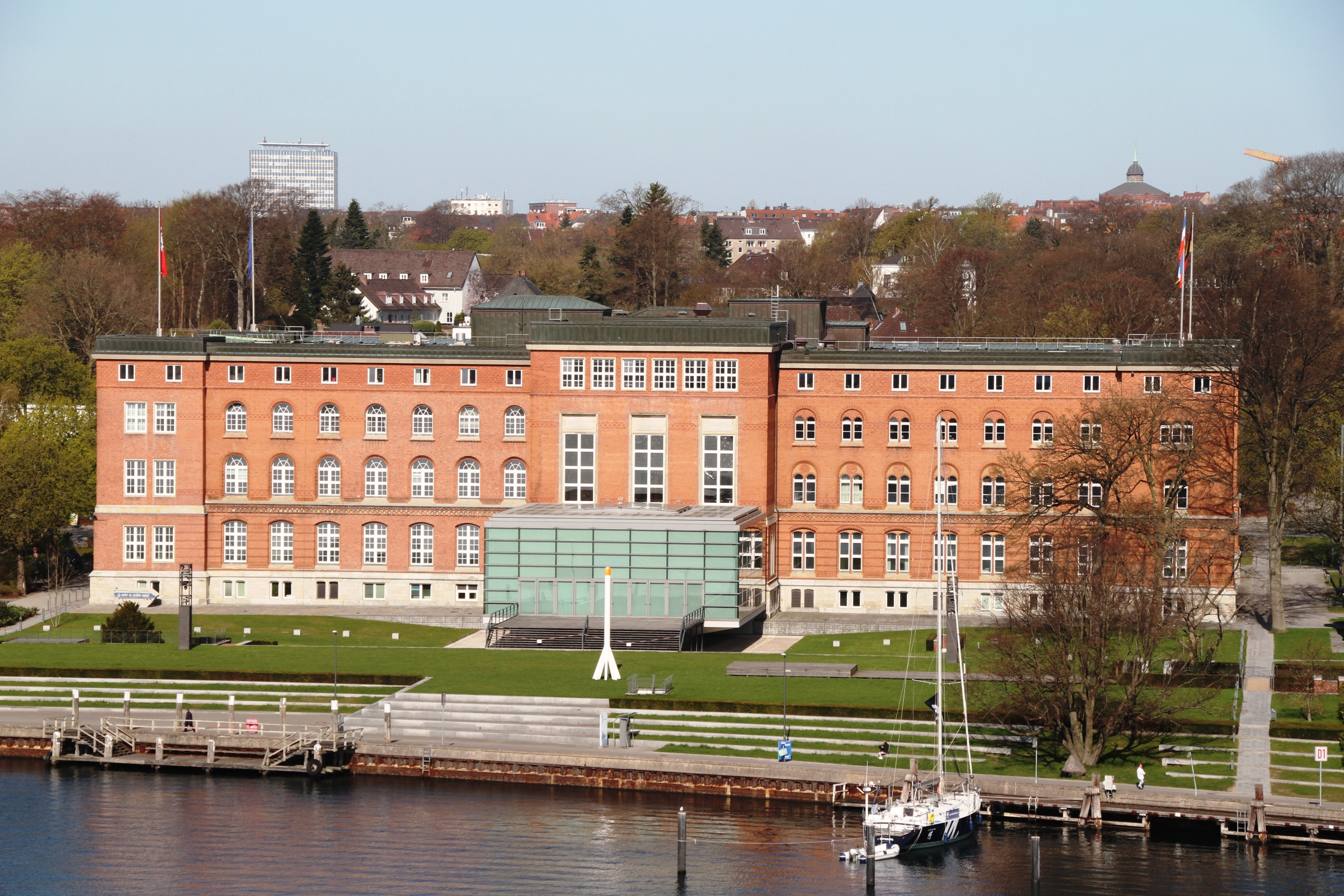 Image from the Kieler Förde, showing the building complex of the state government and state legislature of Schleswig-Holstein - the northern state of Germany. Kiel city and fjord, north Germany.